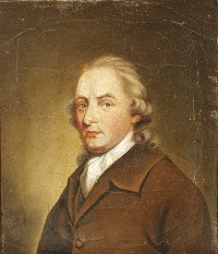 Roger Kemble by Thomas Beech